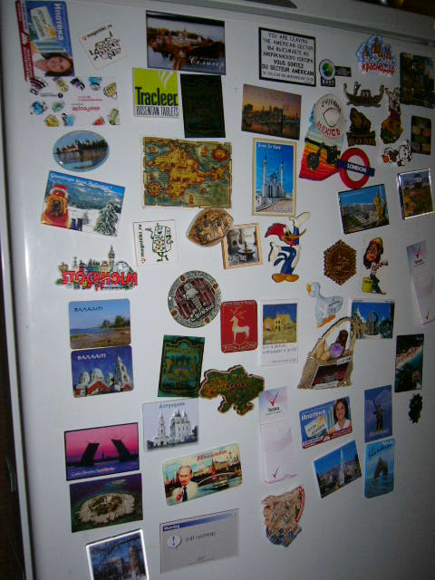 fridge magnets collection